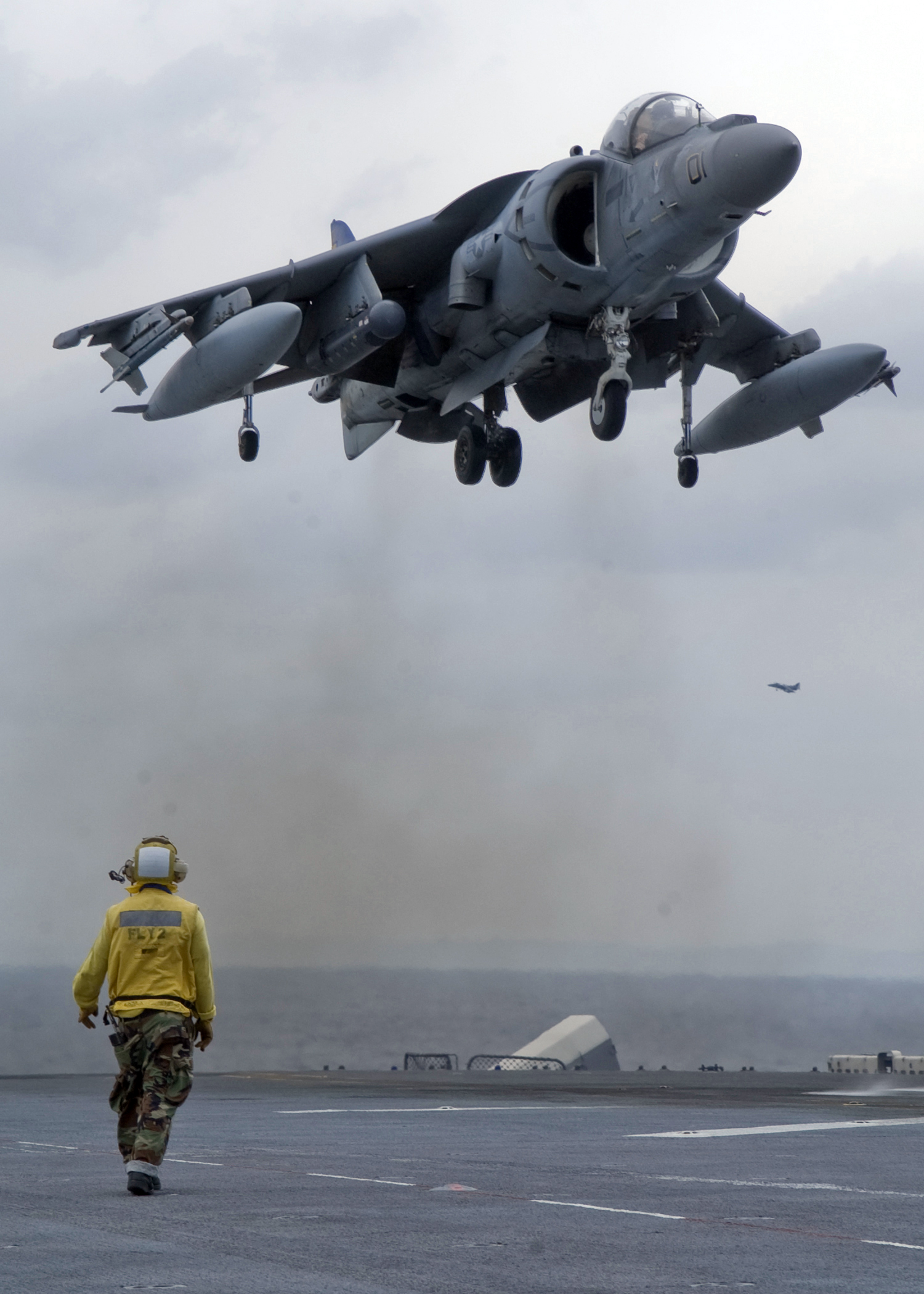 An AV-8B Harrier landing on the USS Essex